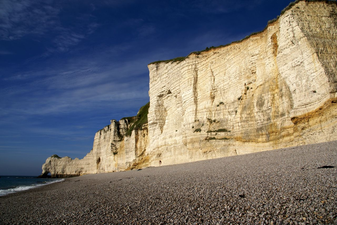 Étretat, Haute-Normandie, France